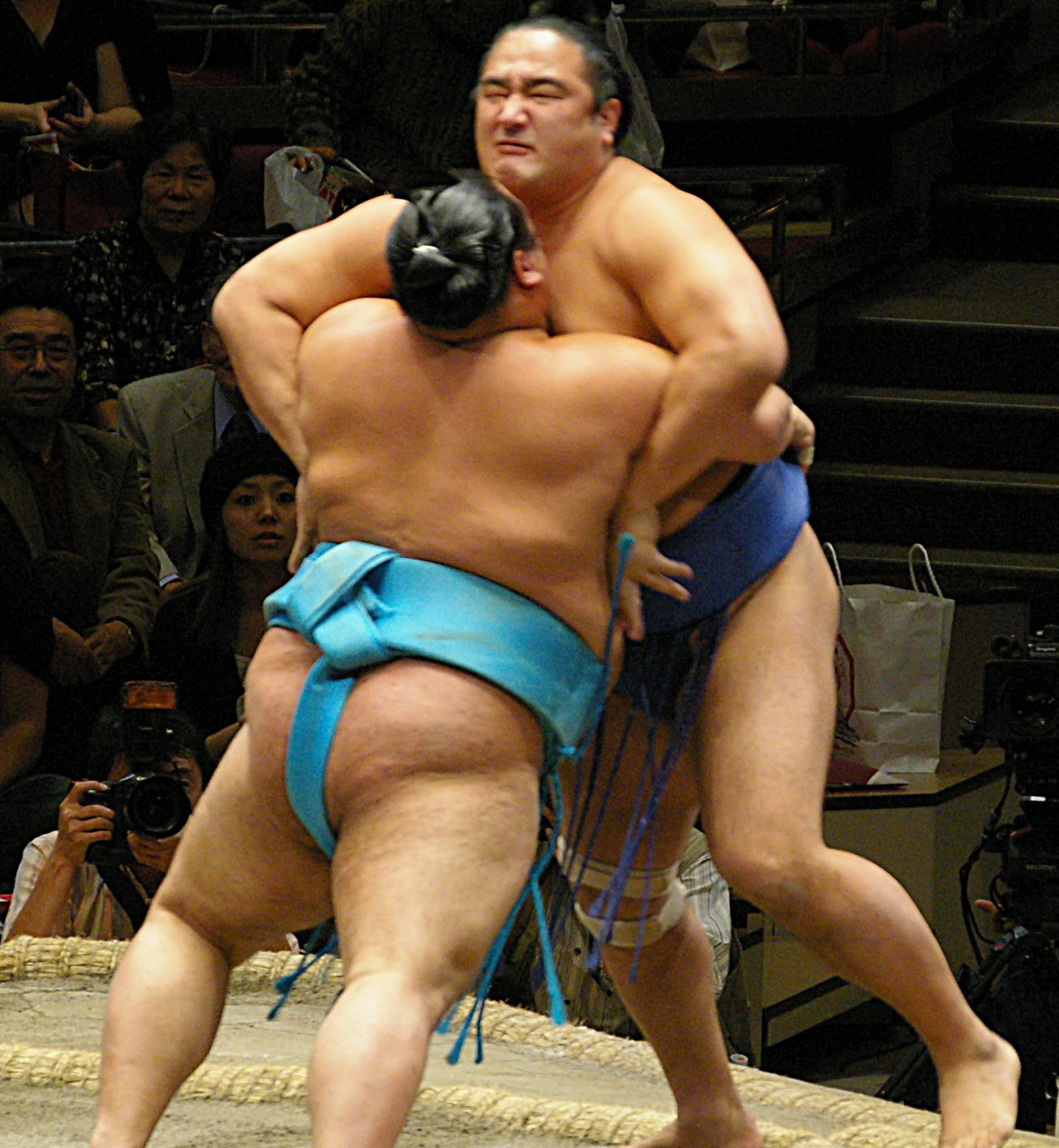 A sumo bout between aminishiki and toyonoshima, Tokyo, October 2007